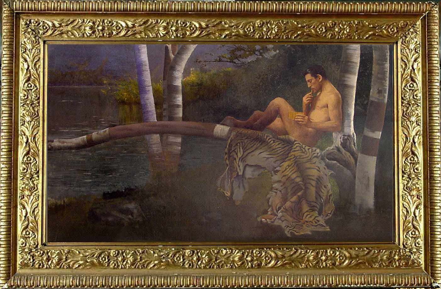 "The Making of the First Musical Instrument" c1900 by John Elliott (Currently in Private Collection of Joe Nouveau)